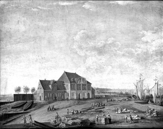 The Customs House in Copenhagen (built 1735, demolished 1891).